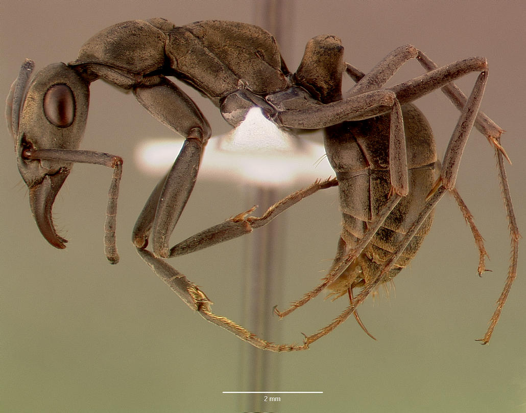 Profile view of ant Pachycondyla berthoudi specimen sam-hym-c007394a.